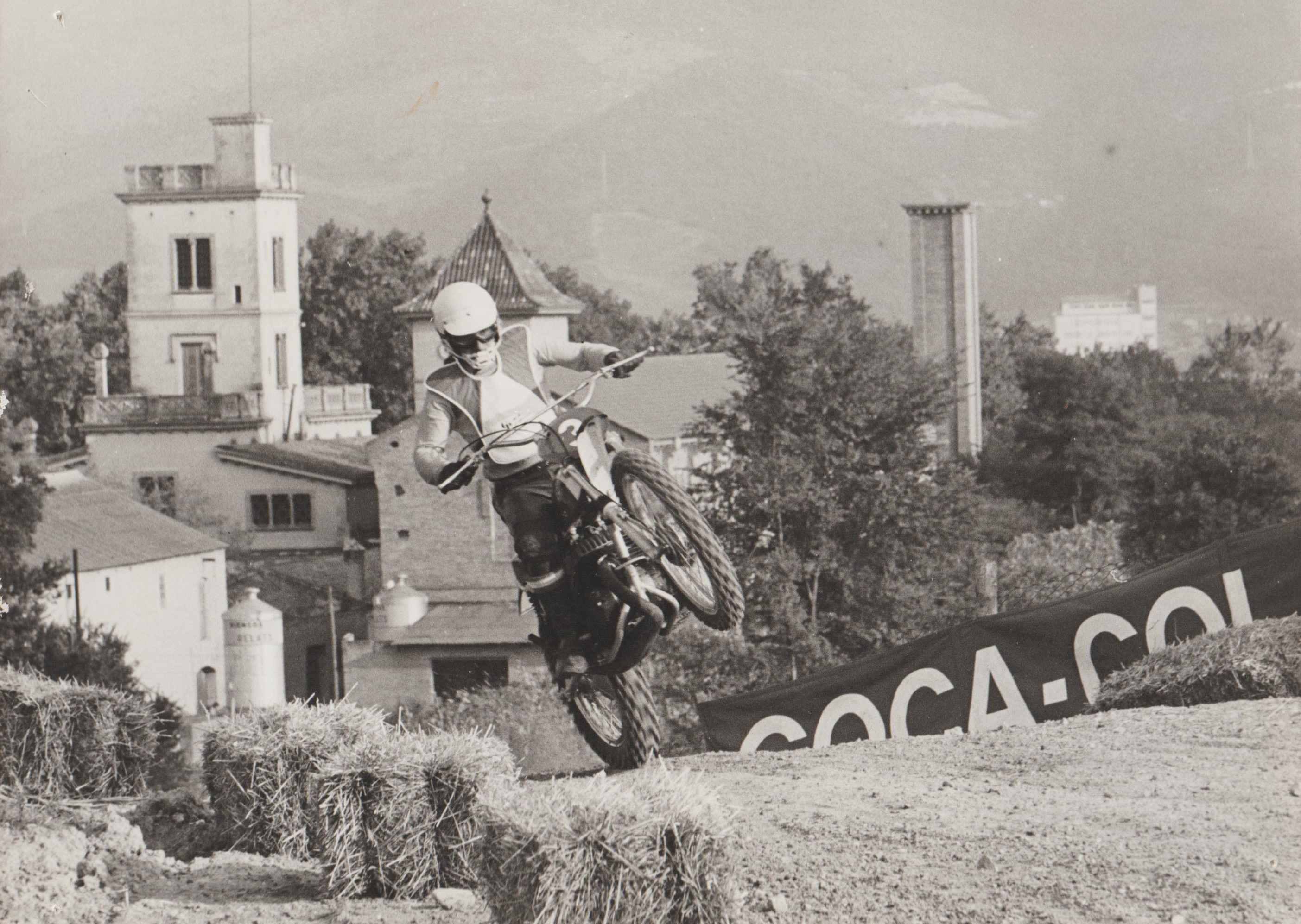 Domingo Gris at 1973 Santa Perpètua de Mogoda Motocross training sessions